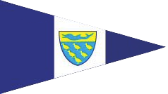 Burgee flag of Itchenor Sailing Club